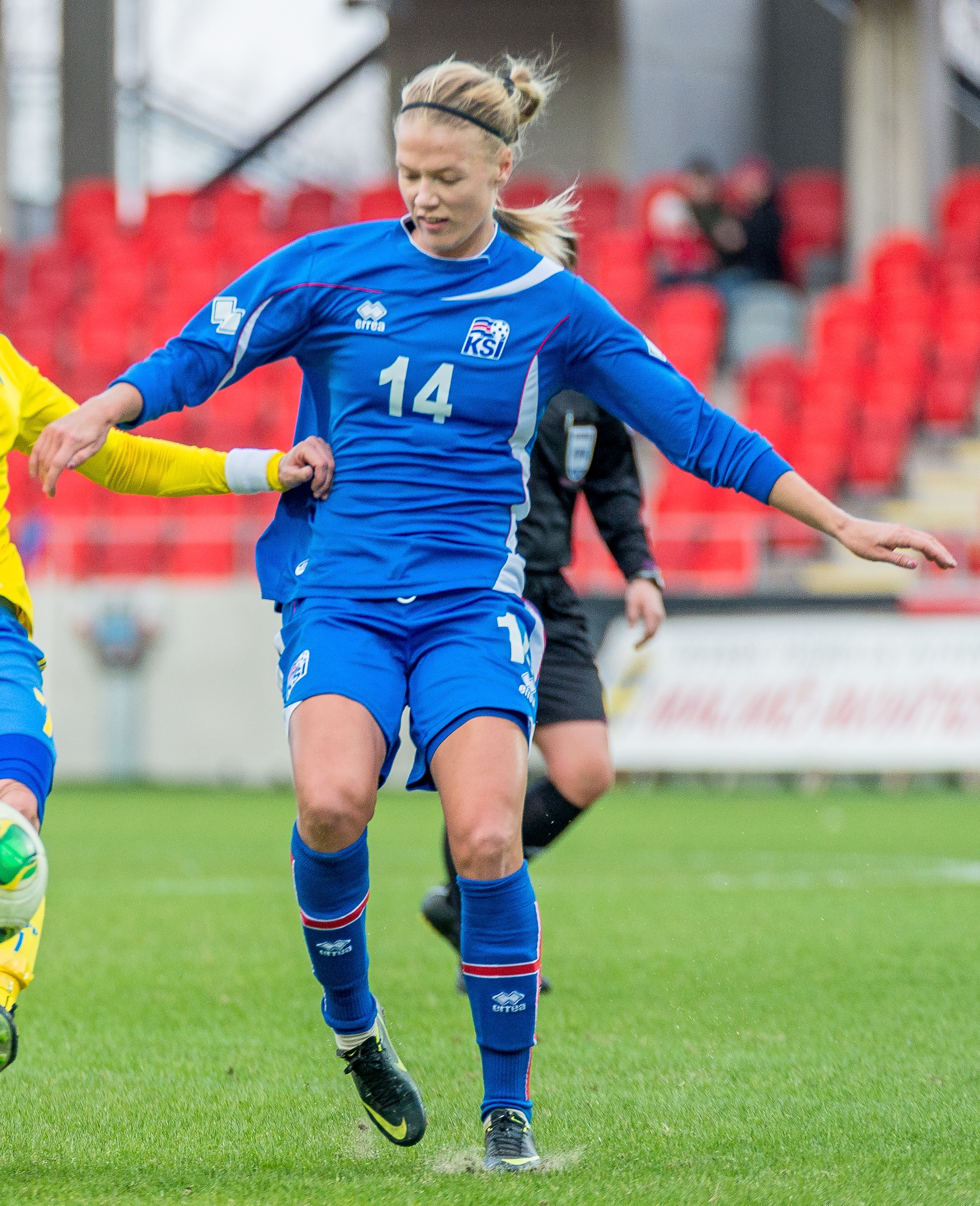 Icelandic footballer Dagný Brynjarsdóttir playing an international friendly against Sweden at Myresjöhus Arena in Växjö, 6 April 2013.